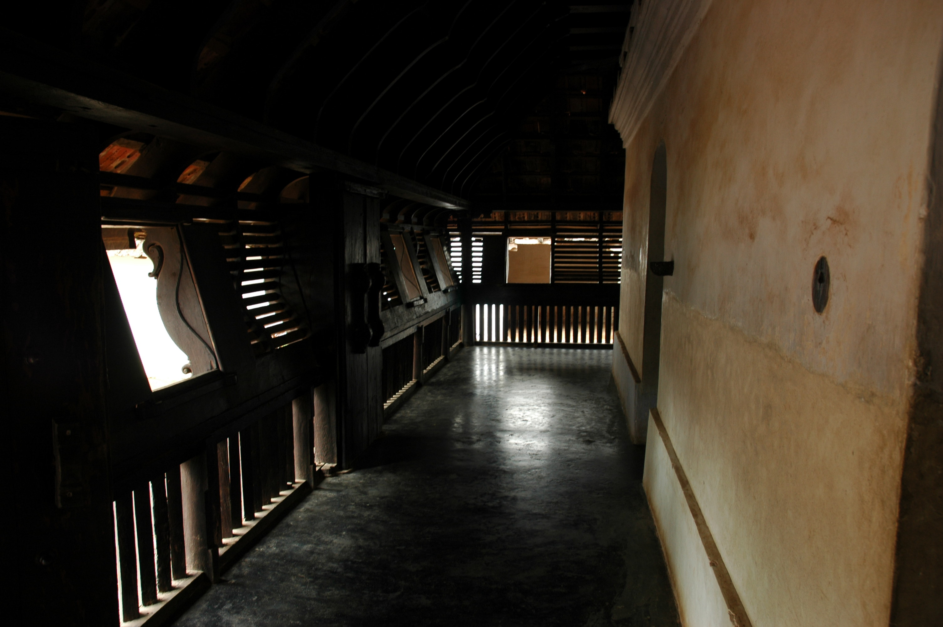 Padamanabhapuram Palace Photo taken by me with D70s. Credit is appreciated though not mandatory.